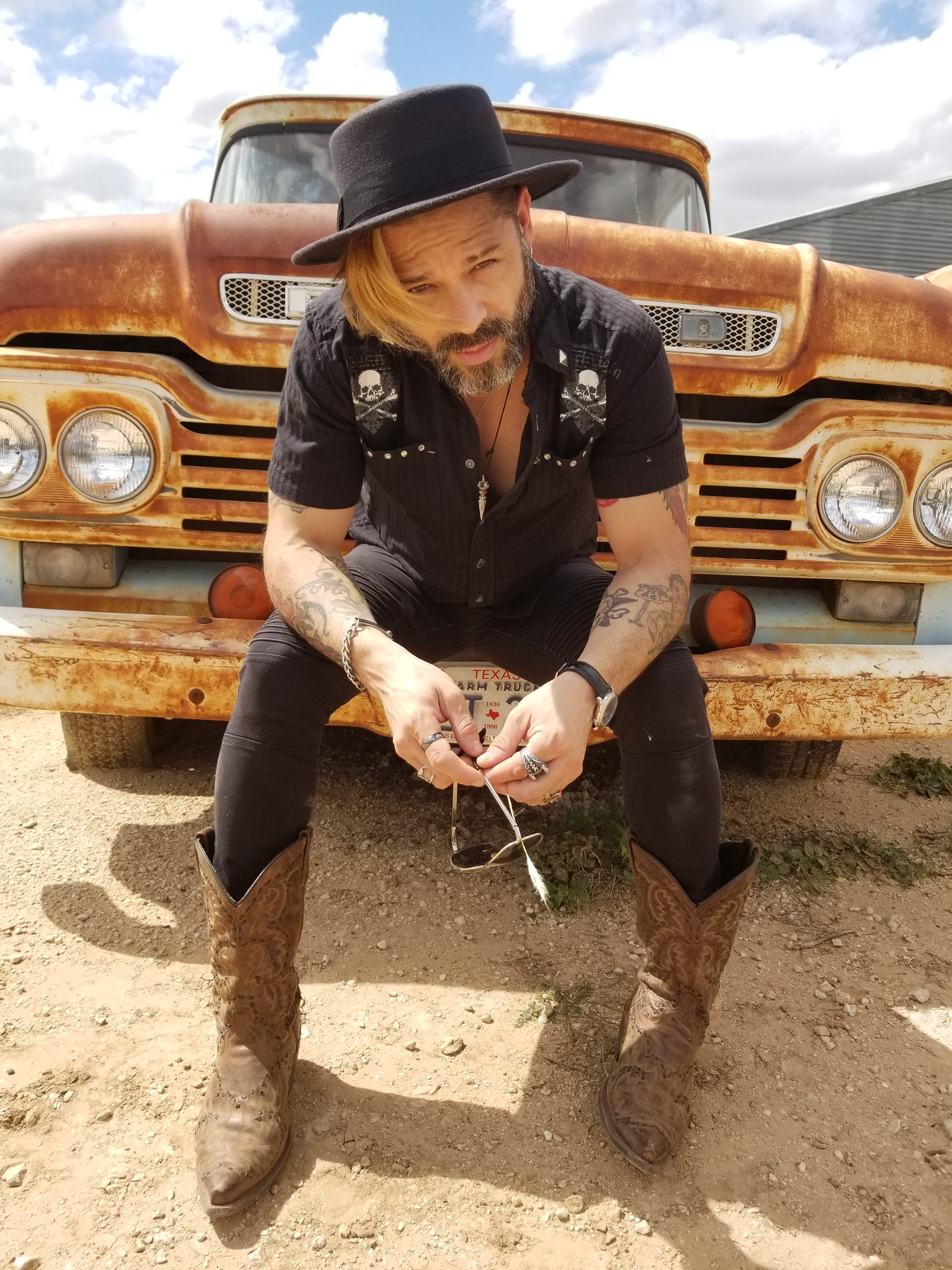 Ariel Nan Filming videoclip Soy Aquel